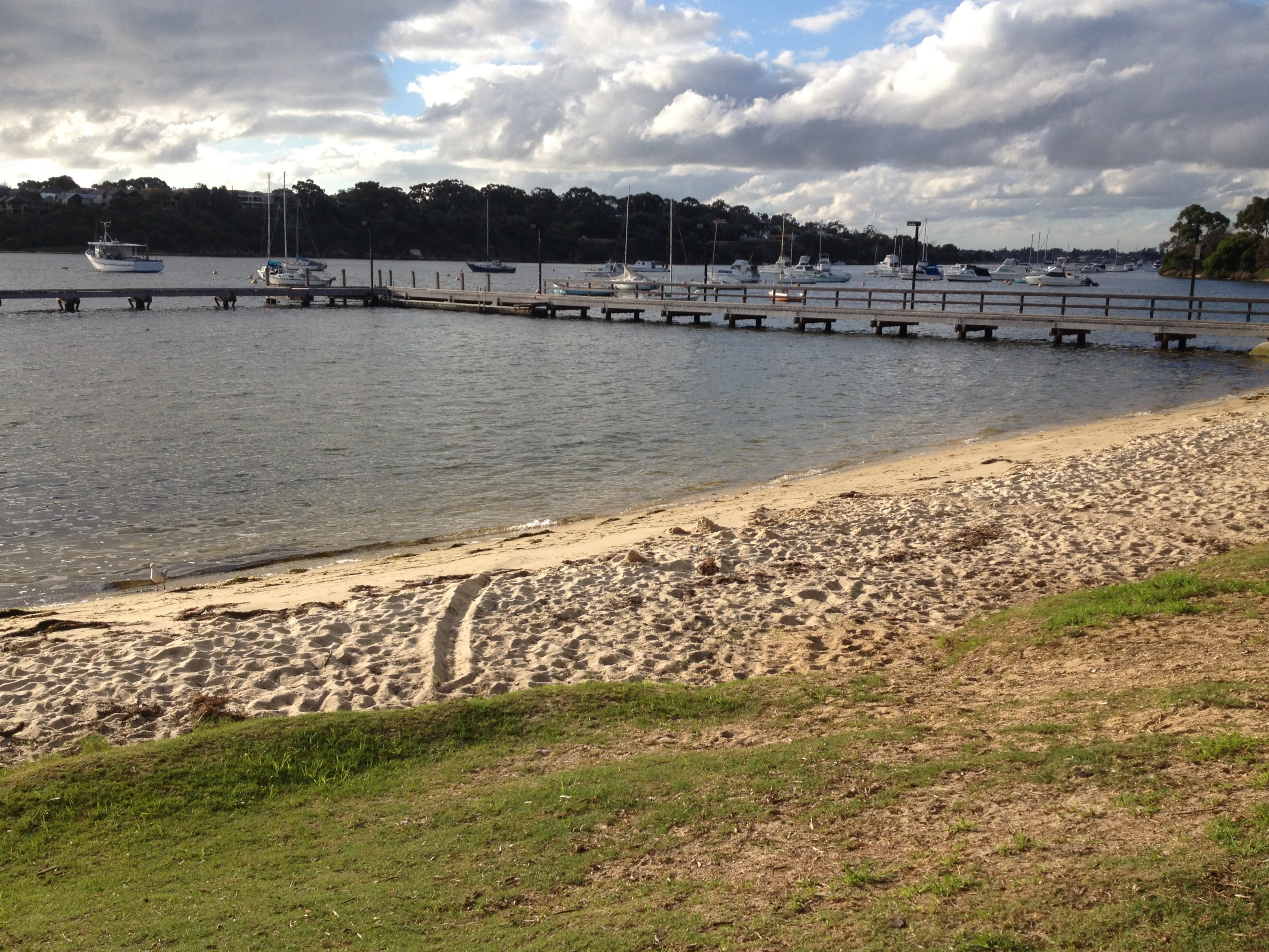 Bicton Baths, Bicton, Western Australia. Image consists of jetty in background and beach in foreground.